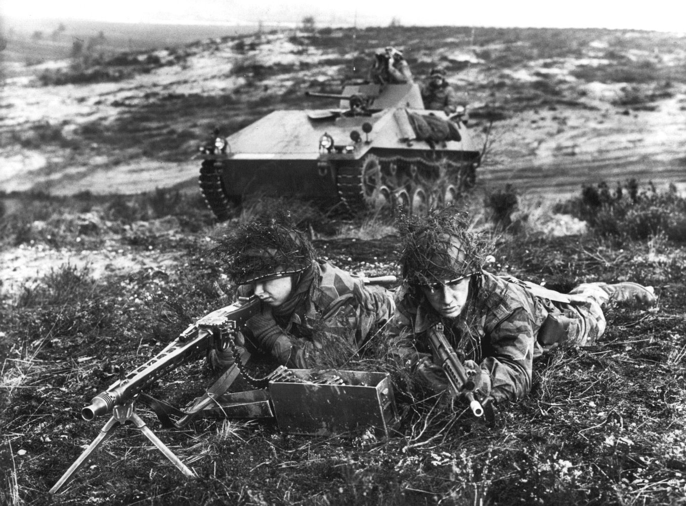 Field Maneuvers - W. German Army Armored Reconnaissance car, W. Germany, 1960.